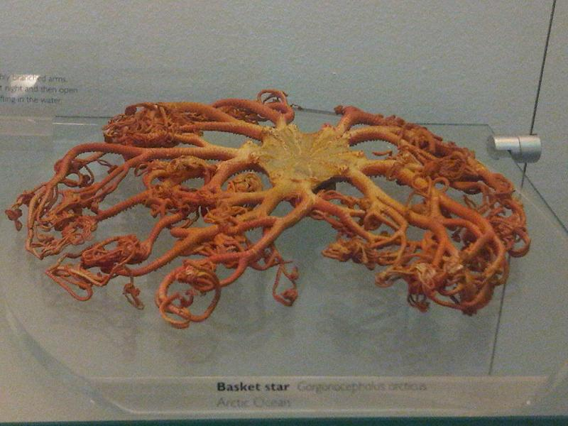 Gorgonocephalus arcticus at the Natural History Museum in London.